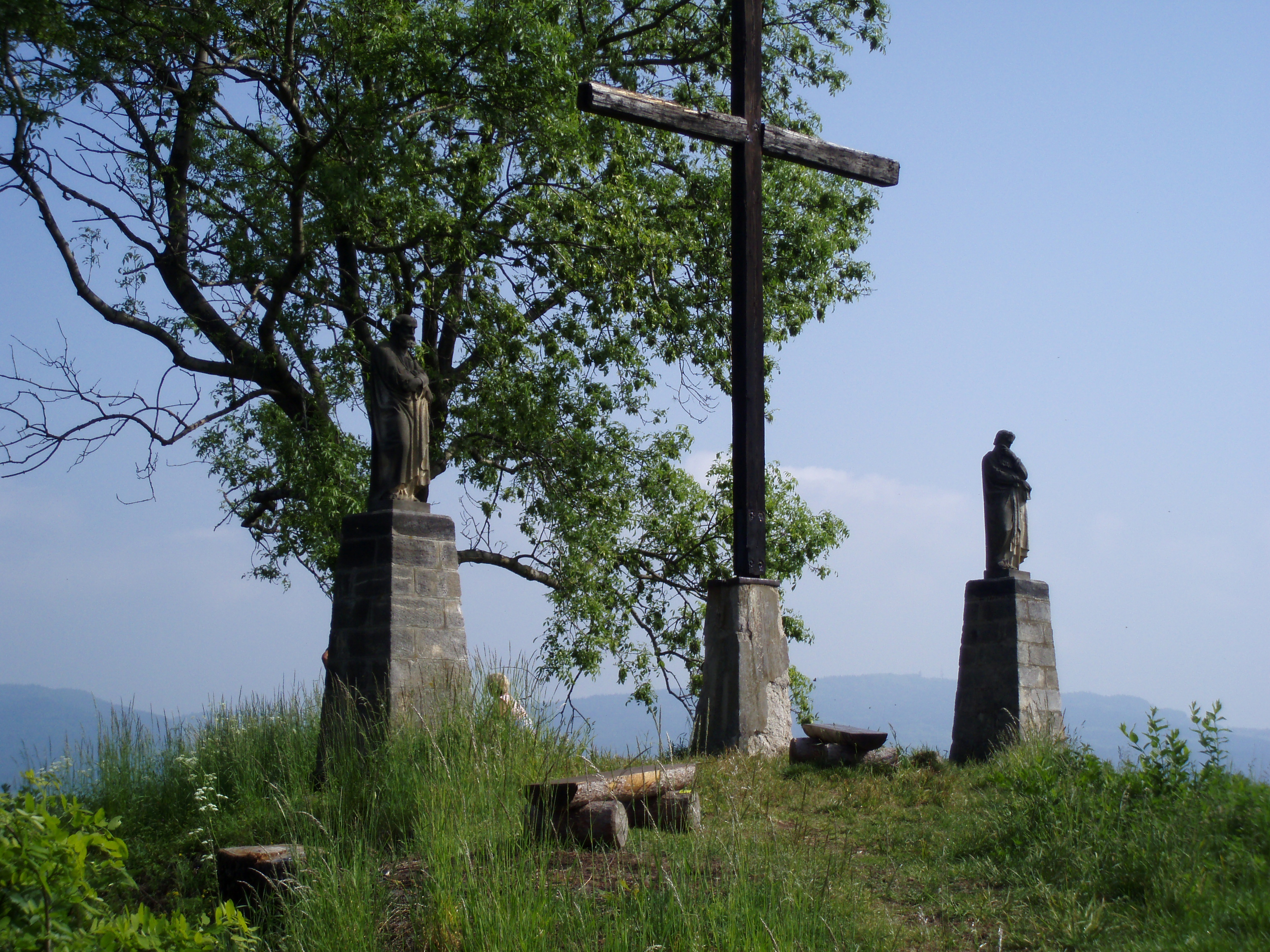 Coss and statues of SS Peter and Paul on the Brada Hill (District of Jicin, CZ)